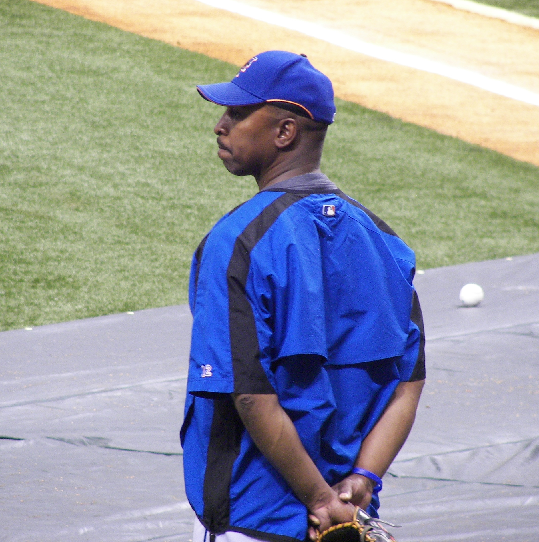 Mets manager Willie Randolph before a Mets/Devil Rays spring training game at Tropicana Field in St. Petersburg, Florida.